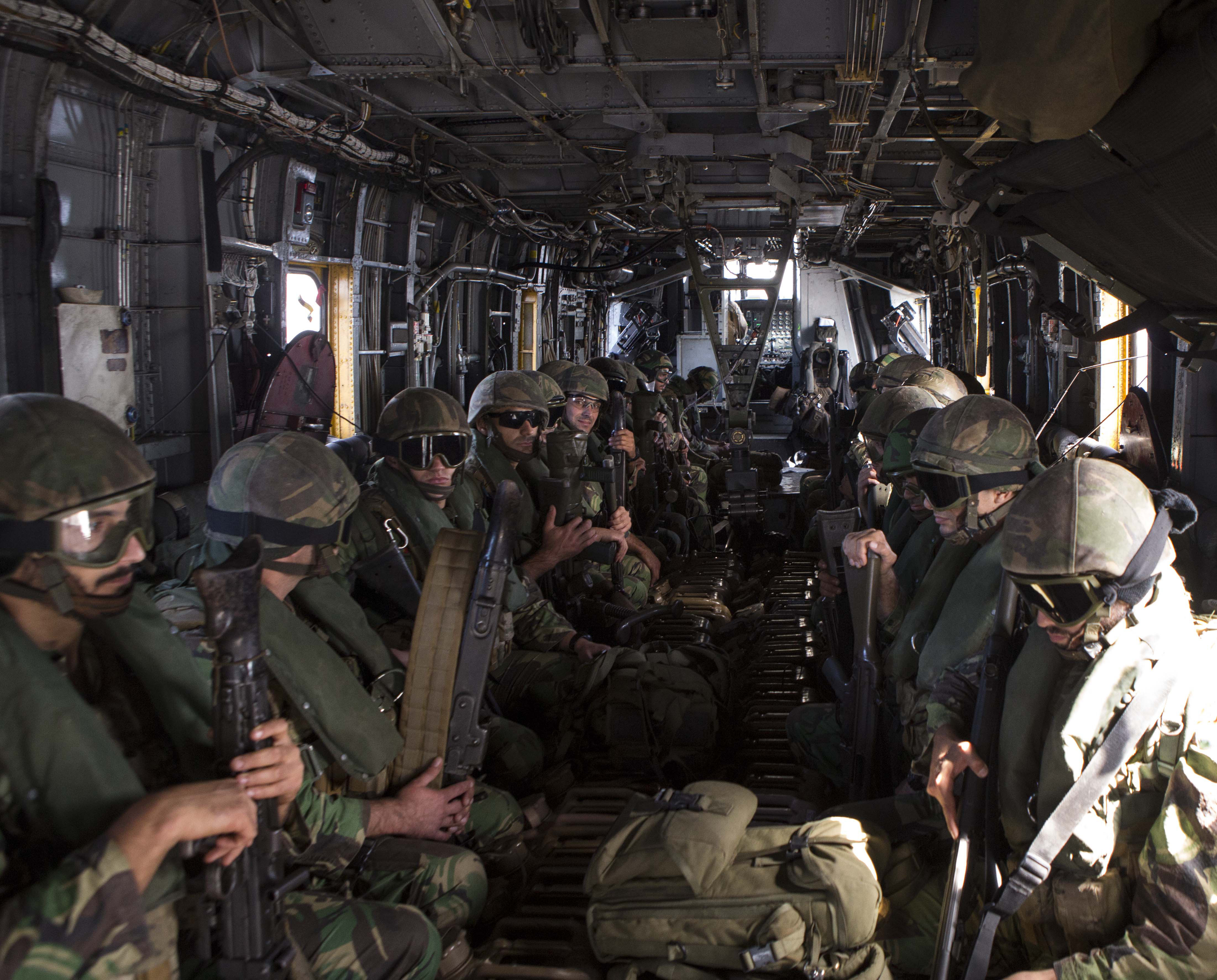 151021-M-WC184-003 ATLANTIC OCEAN – U.S. and Portuguese Marines sit aboard a U.S. Marine Corps CH-53E Sea Stallion helicopter with the 26th Marine Expeditionary Unit, embarked aboard the amphibious transport dock ship USS Arlington (LPD 24), flying to participate in a combined helicopter-borne assault training exercise near Pinheiro Da Cruz, Praia Da Raposa, Portugal, Oct. 21, 2015 during Trident Juncture 15. Trident Juncture is a NATO-led exercise designed to certify NATO response forces and develop interoperability among participating NATO and partner nations. Arlington, part of the Kearsarge Amphibious Ready Group, is conducting naval operations in the U.S. 6th Fleet area of operations in support of U.S. national security interests in Europe. (United States Marine Corps photo by Sgt. Austin Long/ Released)